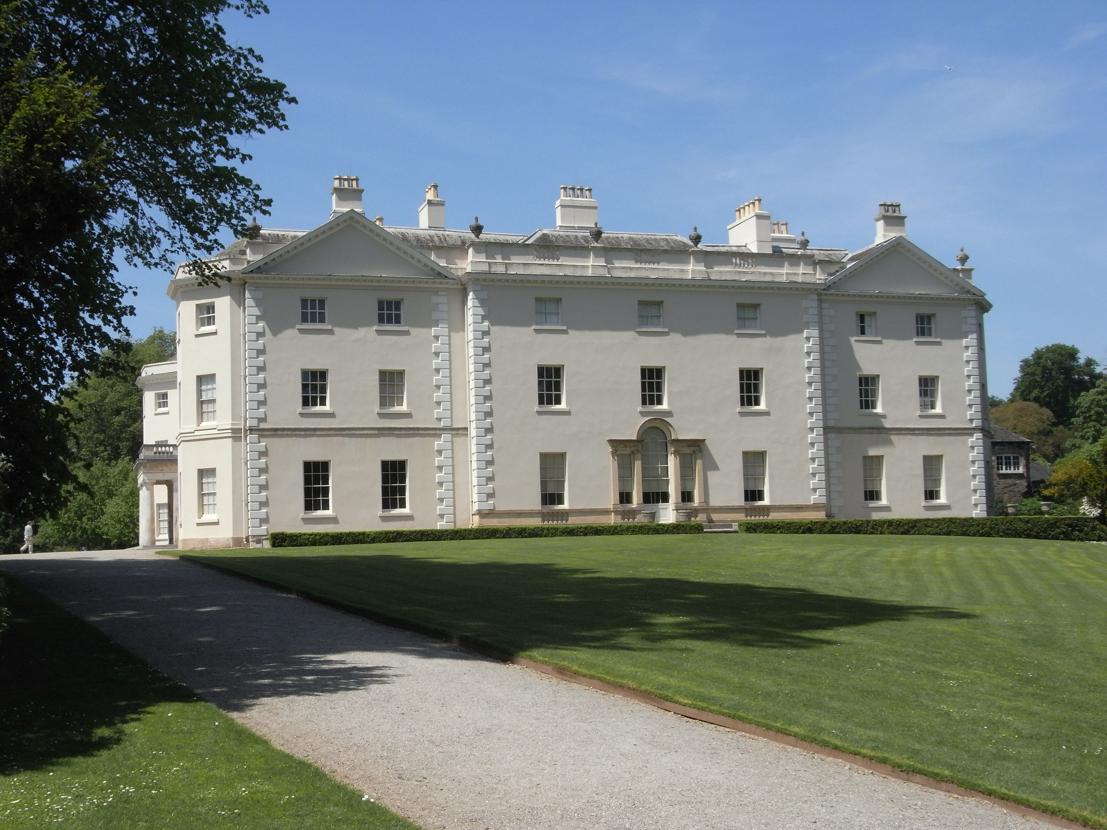 Saltram House, near Plymouth, Devon, East Front. The central section contains the Saloon, one of the most "splendid creations" (Pevsner, Buildings of England) of the architect Robert Adam, who re-modelled the interior 1770-2.